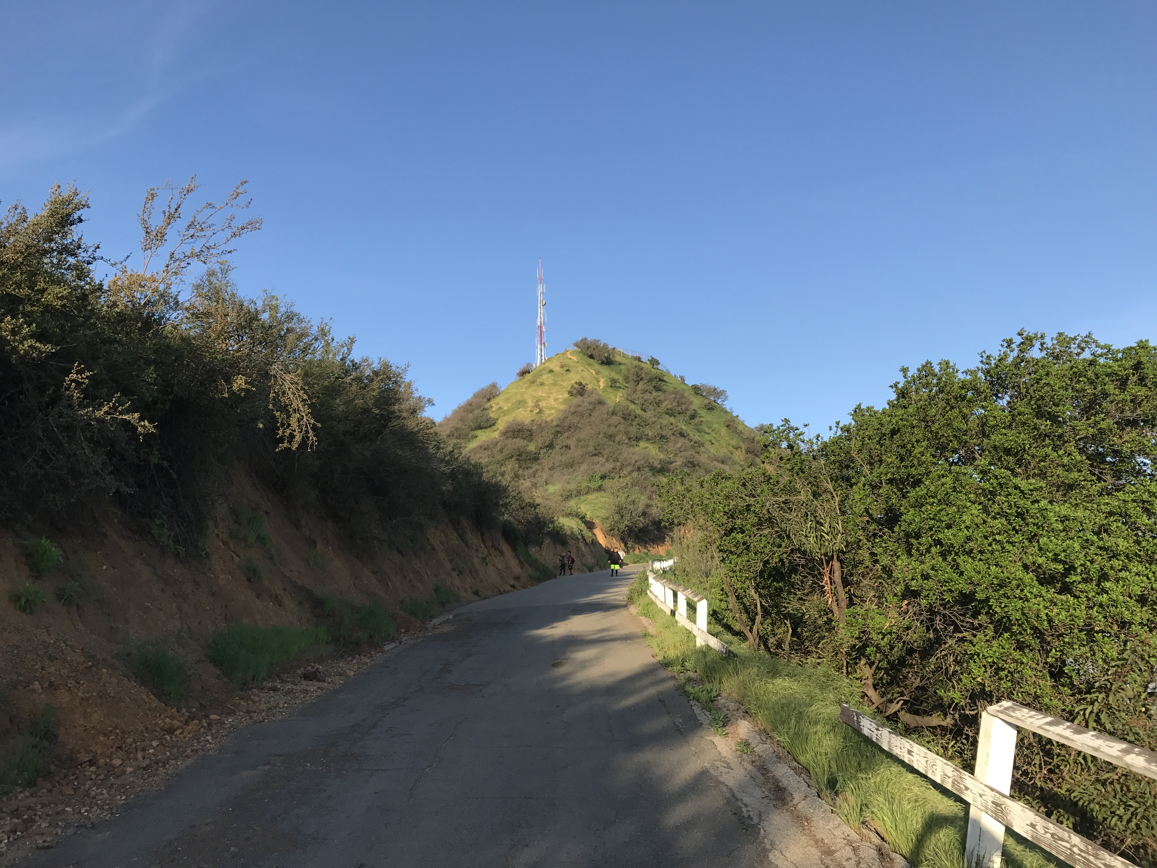 View of radio towers on summit of Mt Lee from hike to the back of the Hollywood Sign on Mt Lee Drive.